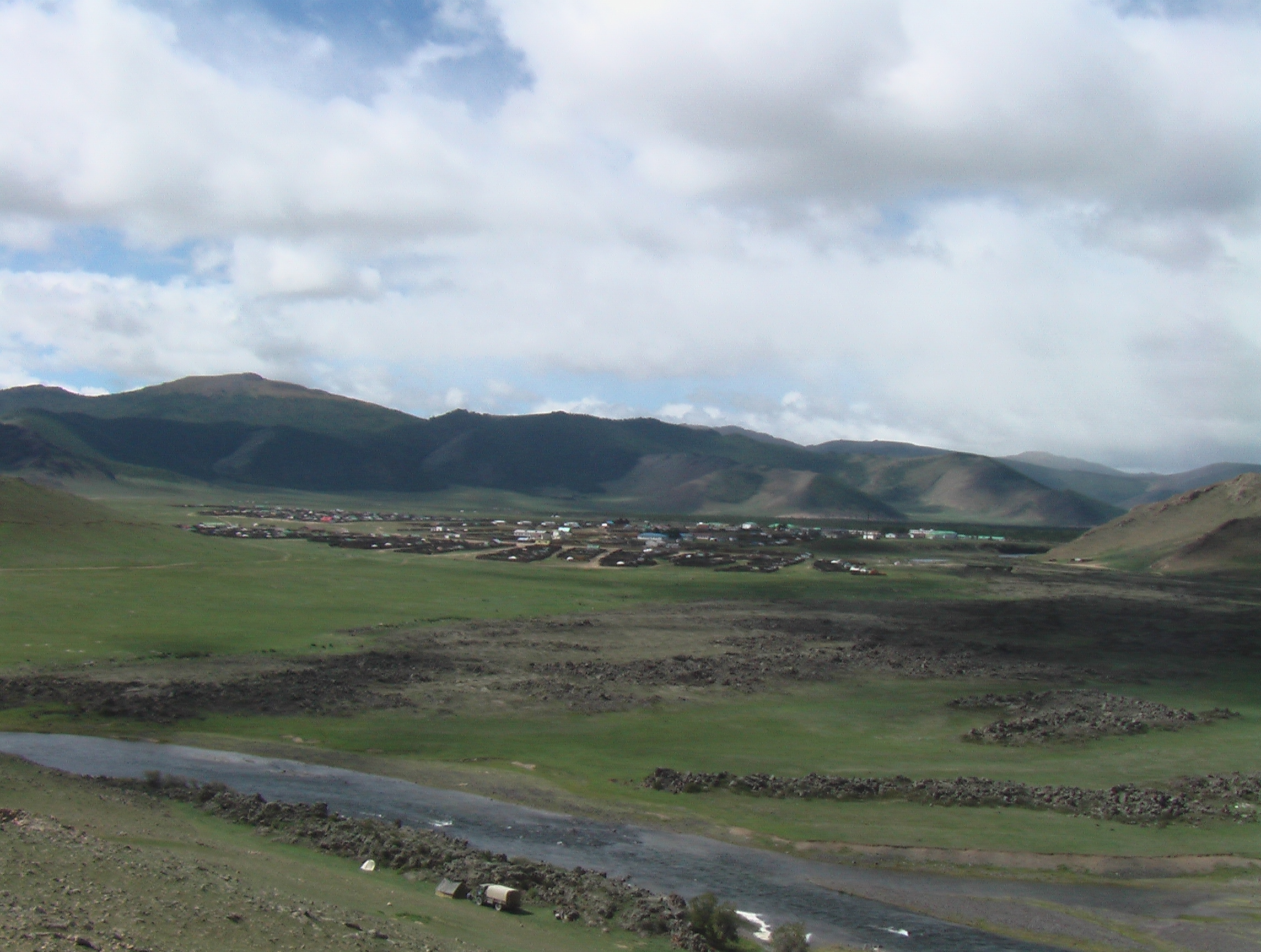 View of Tatiat sum centre, Arkhangai province, Mongolia.